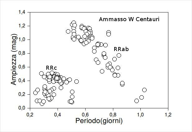 Bayley diagramm of W Centauri